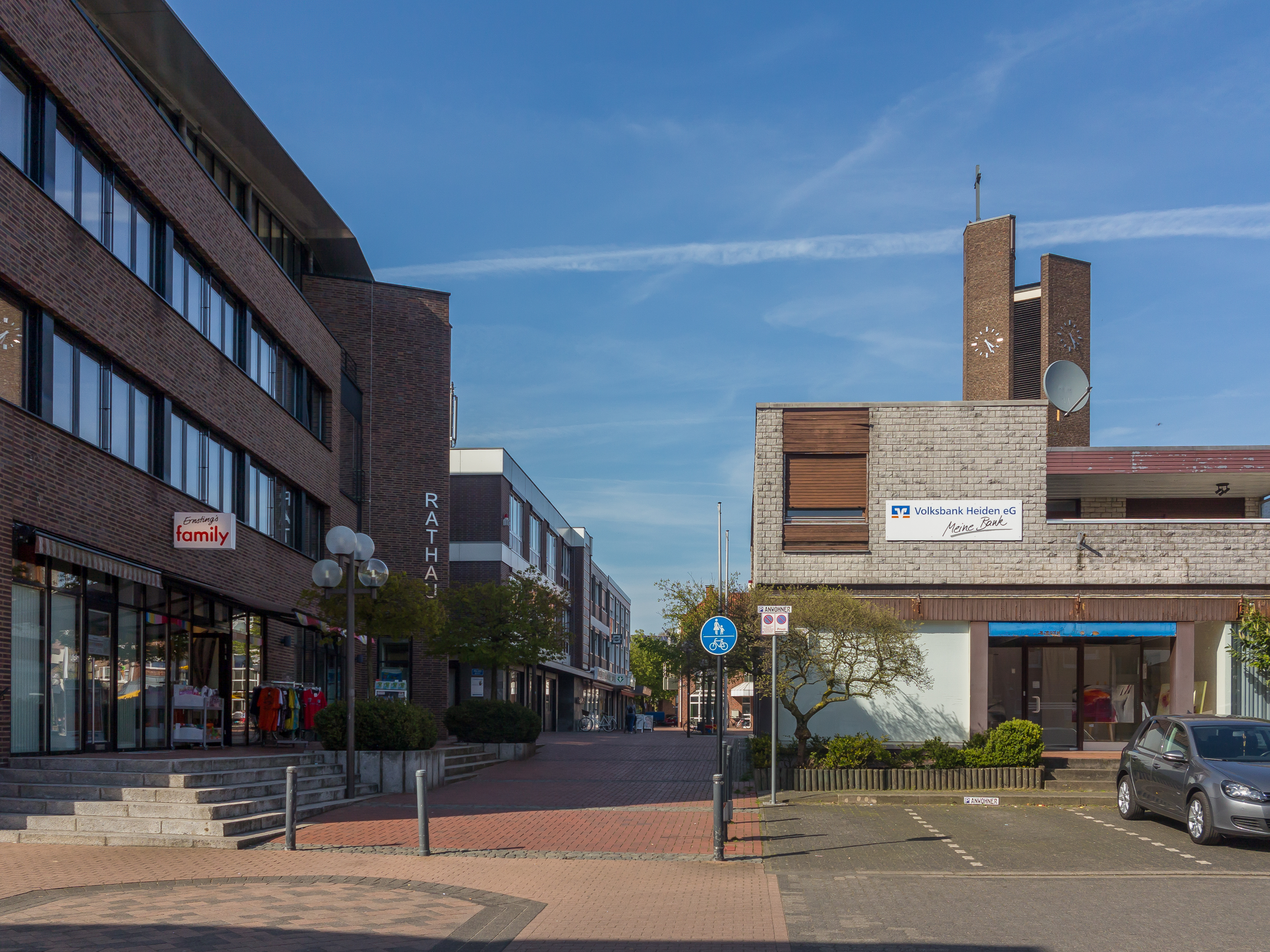 Heiden, townhall, church and bank